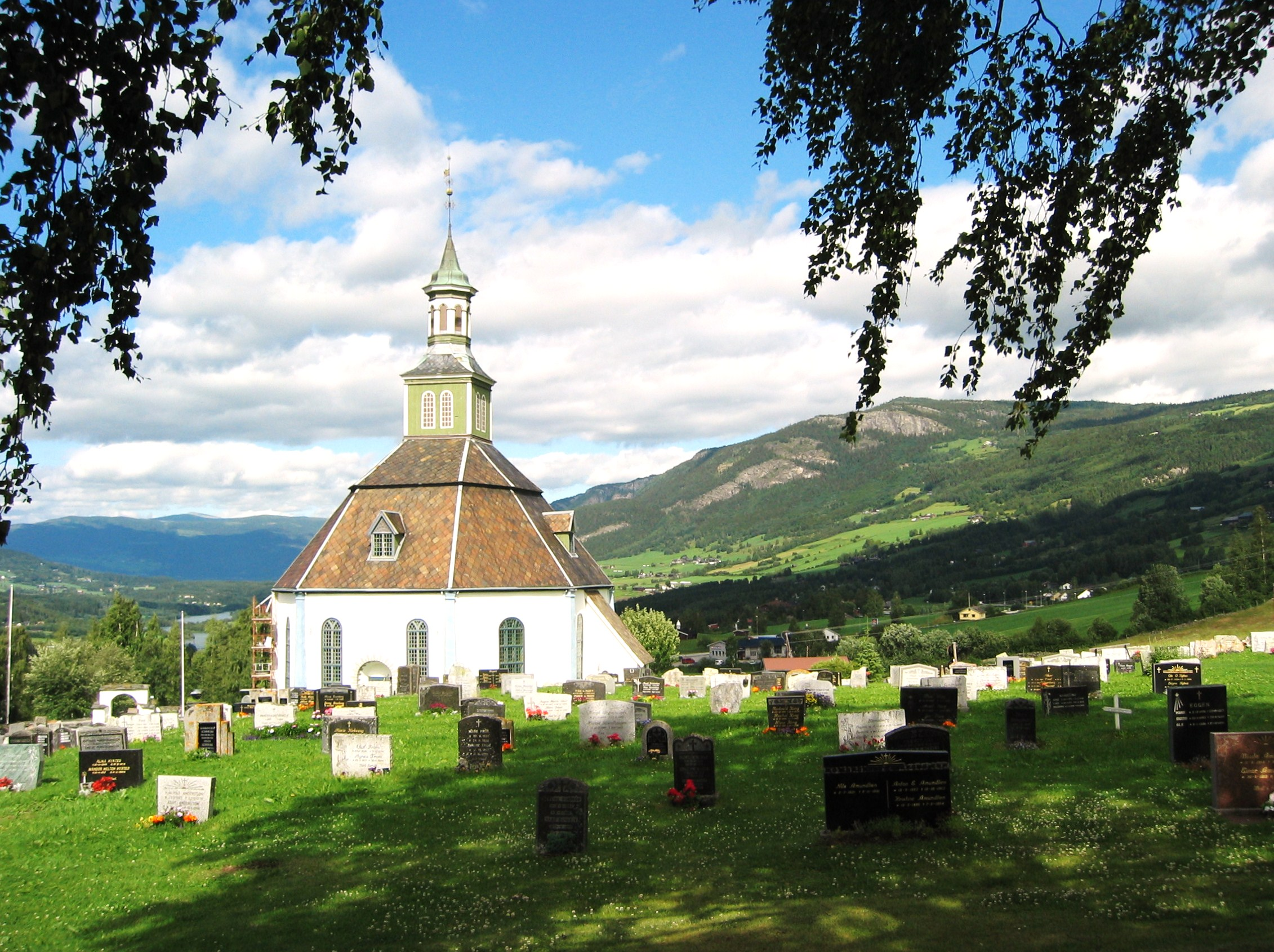 Sør-Fron church and churchyard, viewed from south